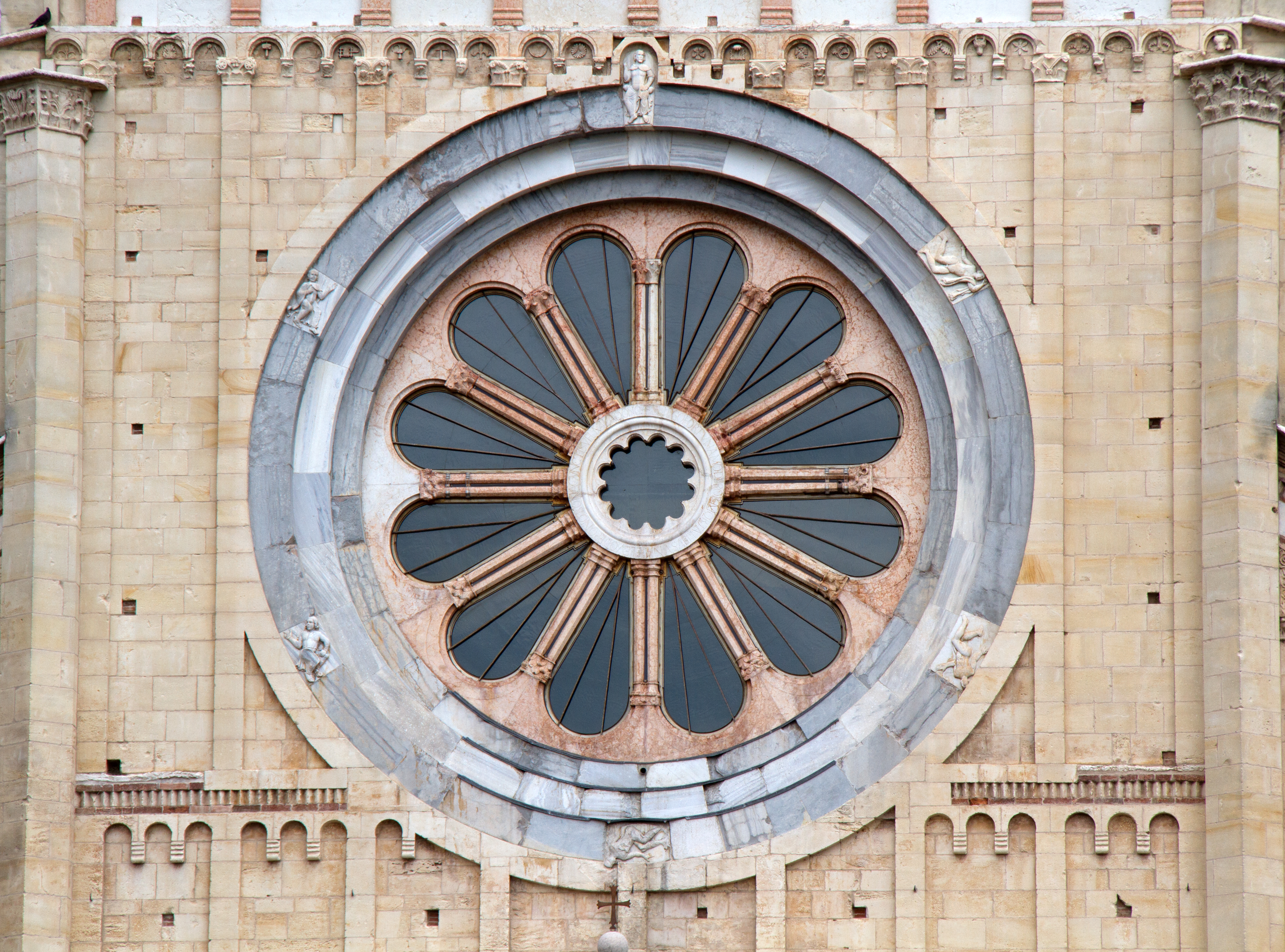 Ornate Romanesque Church built between 1120 - 38AD